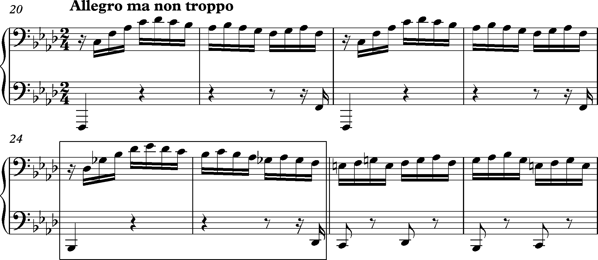 Beethoven Piano Sonata Op. 57, third movement bars 20-27